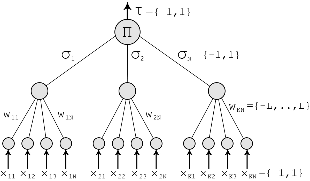 Tree parity machine